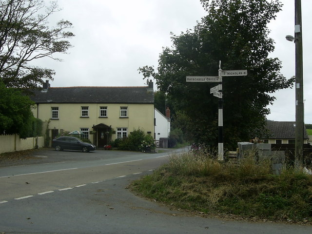 Pub at Castlemorris The small pub by the B4331 road was for many years till the 1970s, the local shop and post office. There was, alongside the wall, fuel pumps and an oil storage unit in front of the shop.